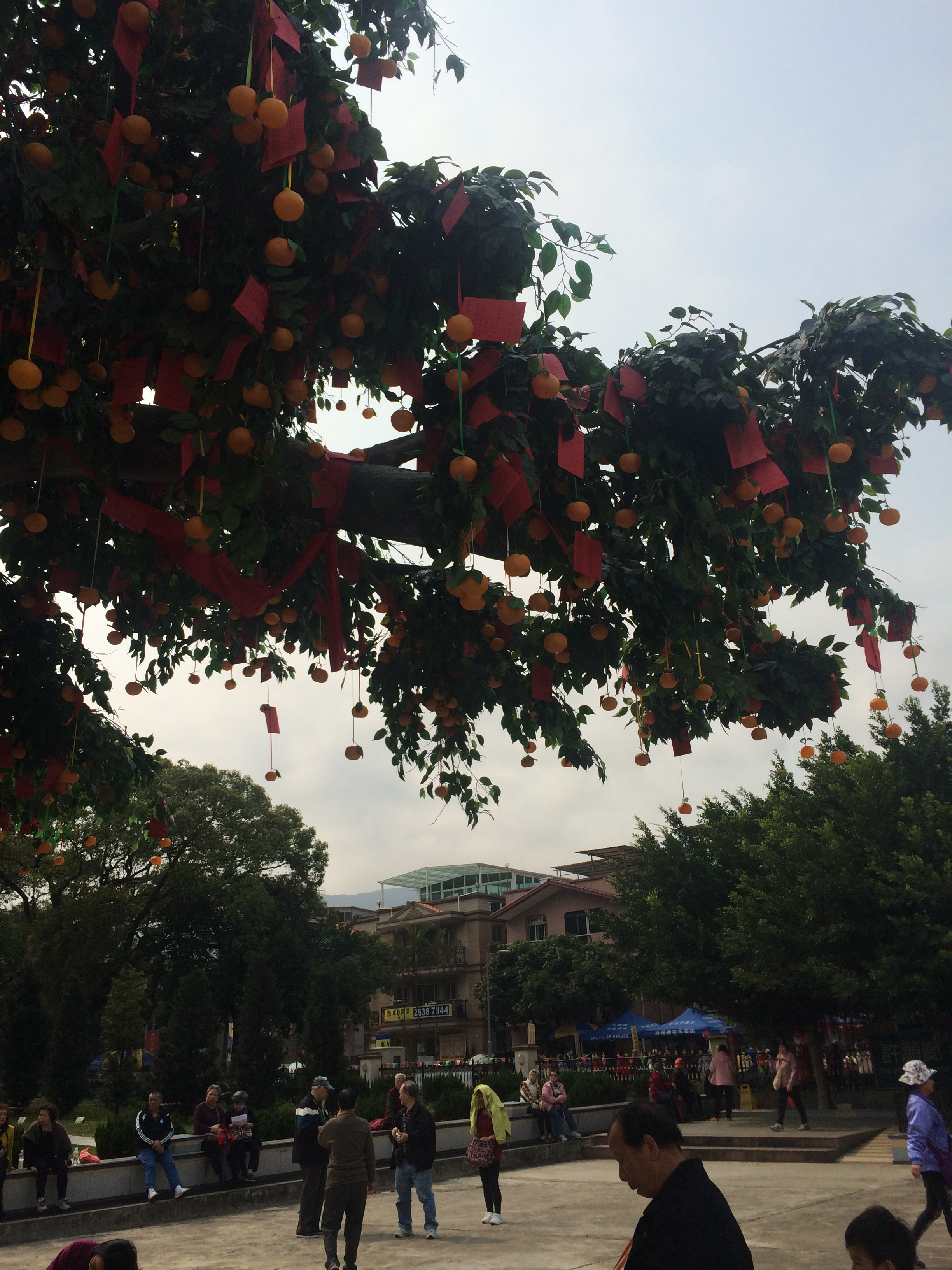 Lam Tsuen Wishing Tress